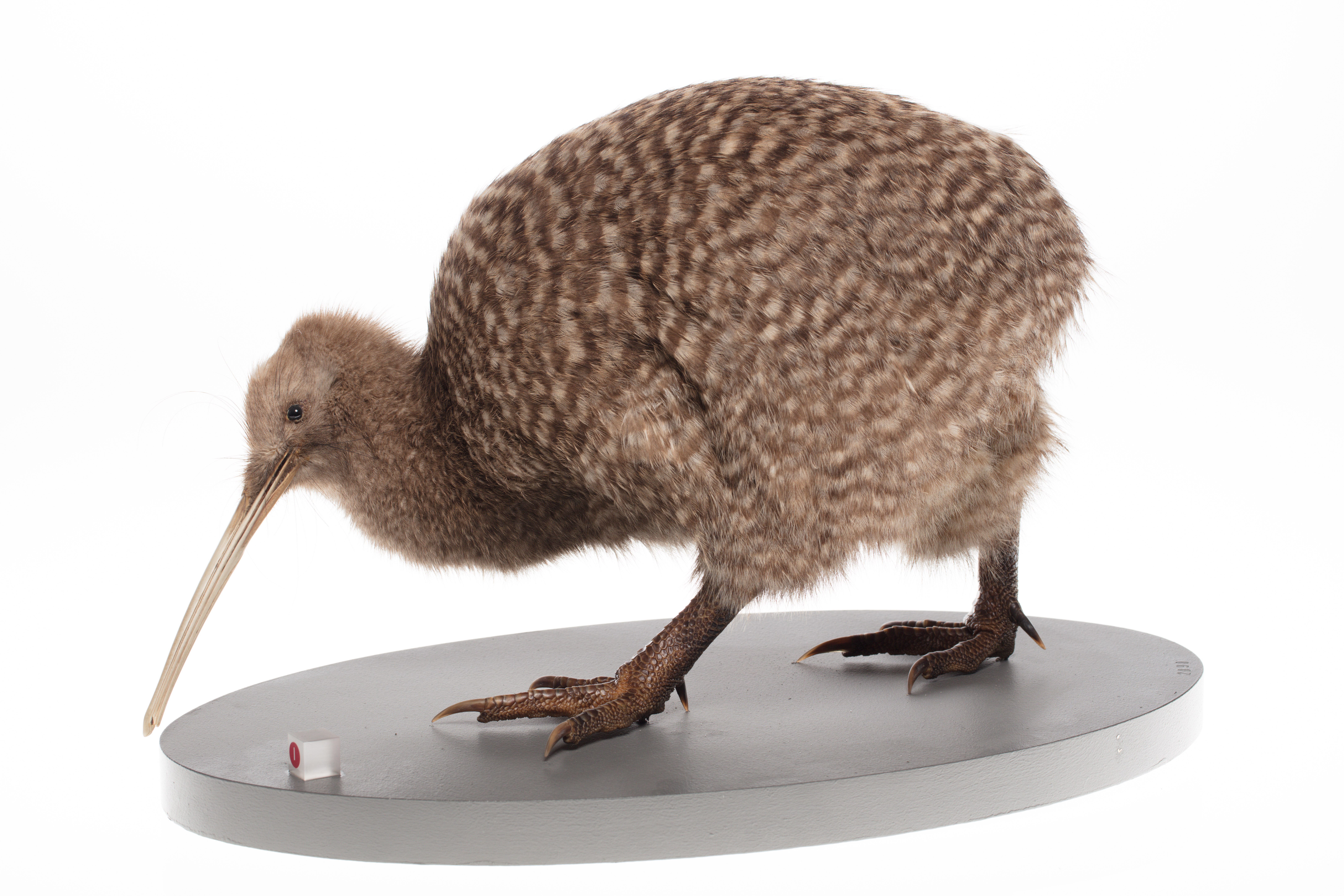 Apteryx haastii, LB2090, © Auckland Museum CC BY